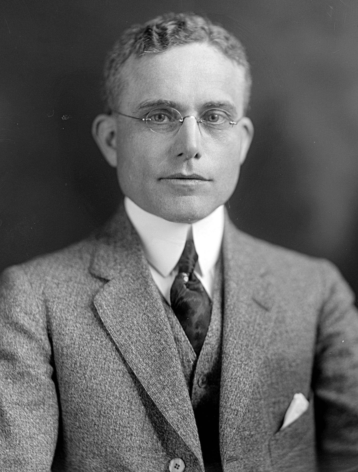 Earl C. Michener, US Representative from Michigan